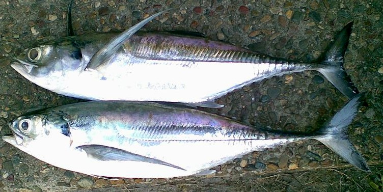 Torpedo scad caught off Port Douglas